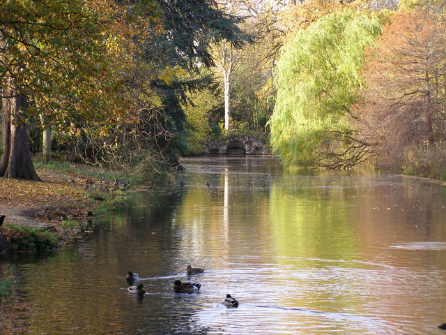 Valentines Park - upper lake Looking at the false bridge by the entrance to Valentines Park near Gants Hill, from the first bridge over the lake.